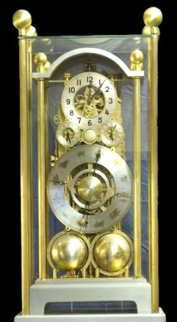 Second Astronomical clock designed by Rasmus Sørnes